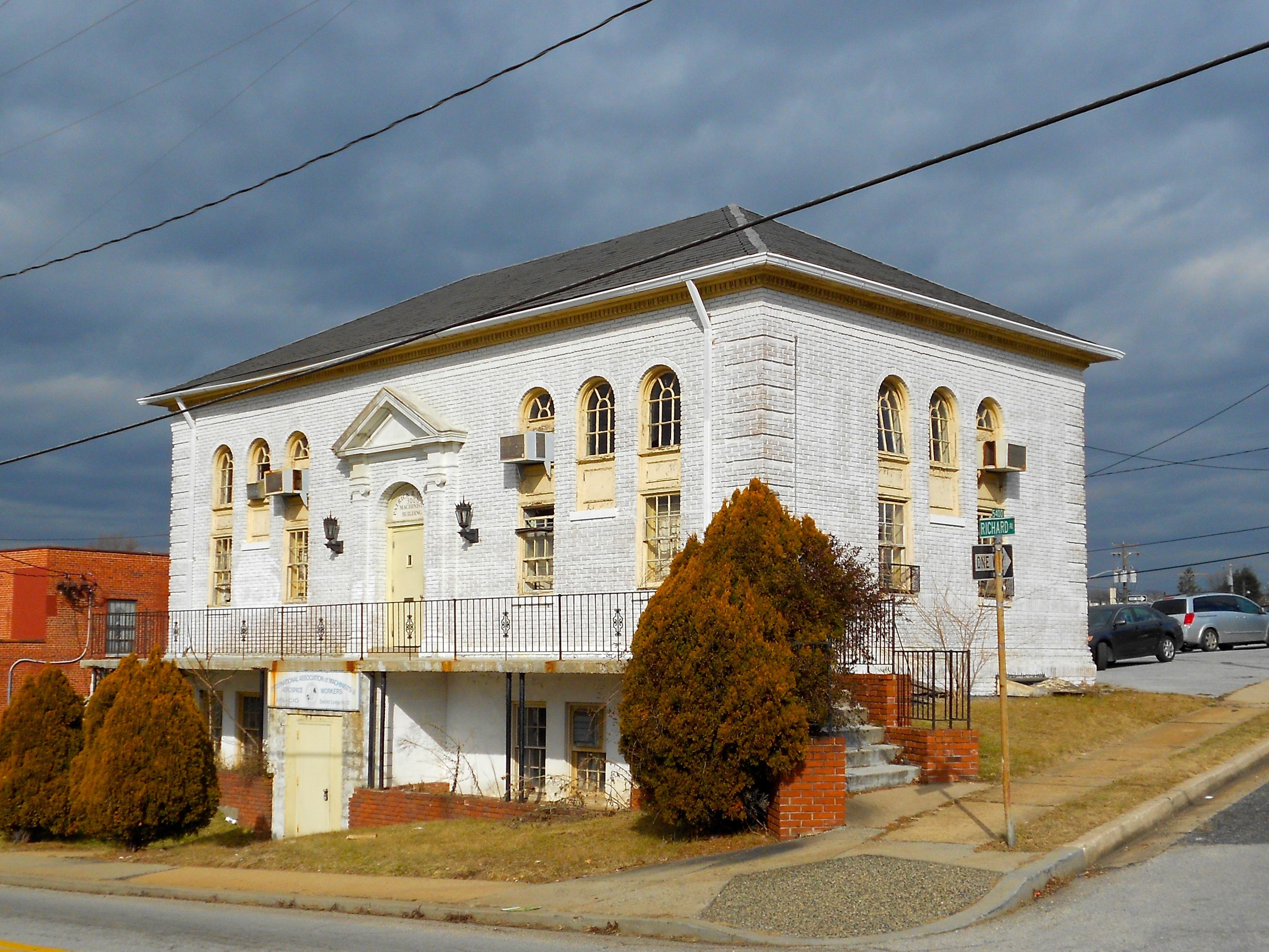 Old Hamilton Library listed on the NRHP on September 25, 2012 at 3006 Hamilton Ave. in Northeast Baltimore near Harford Road.